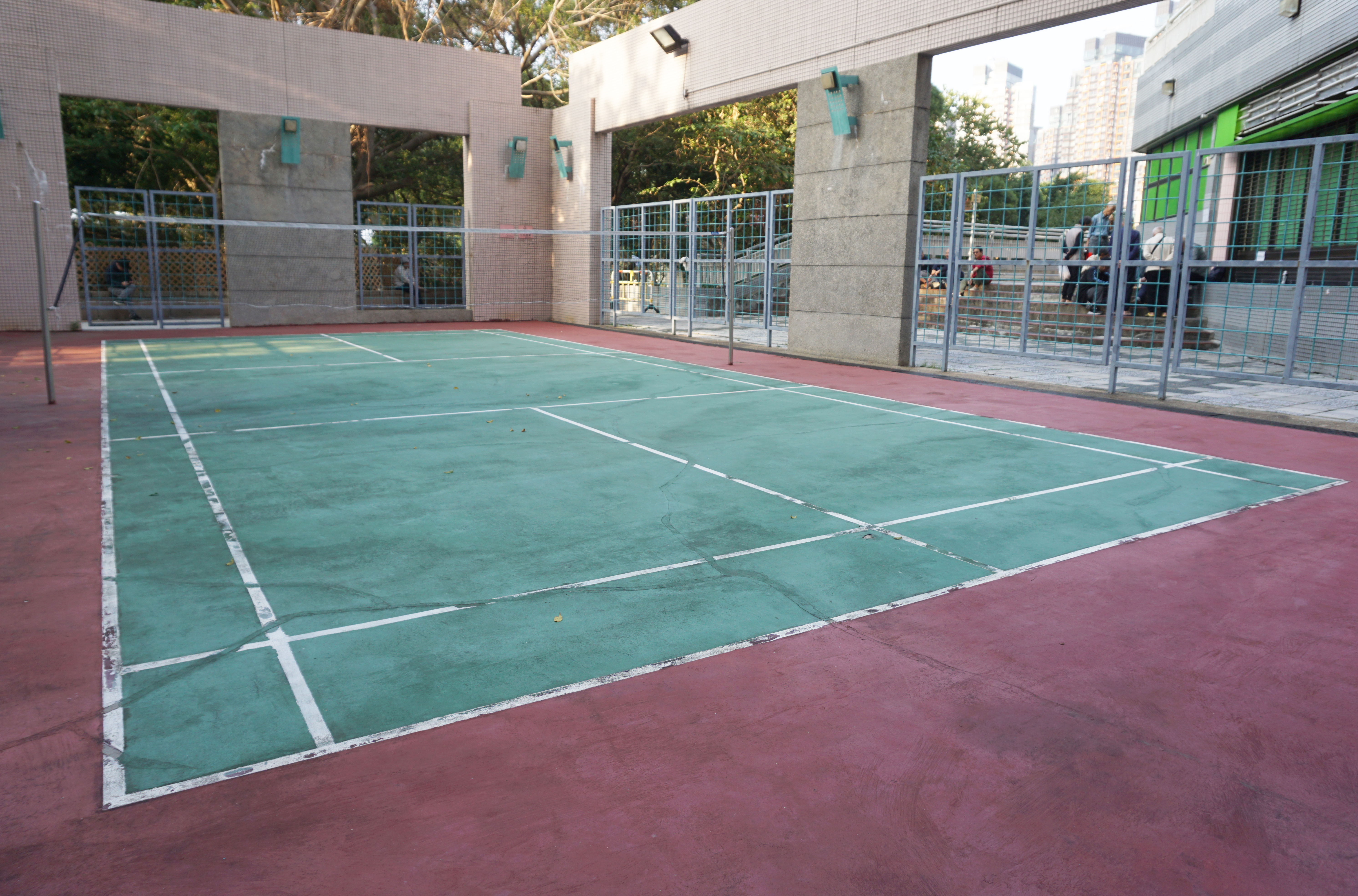 Kam Lung Court in Wu Kai Sha, Hong Kong.